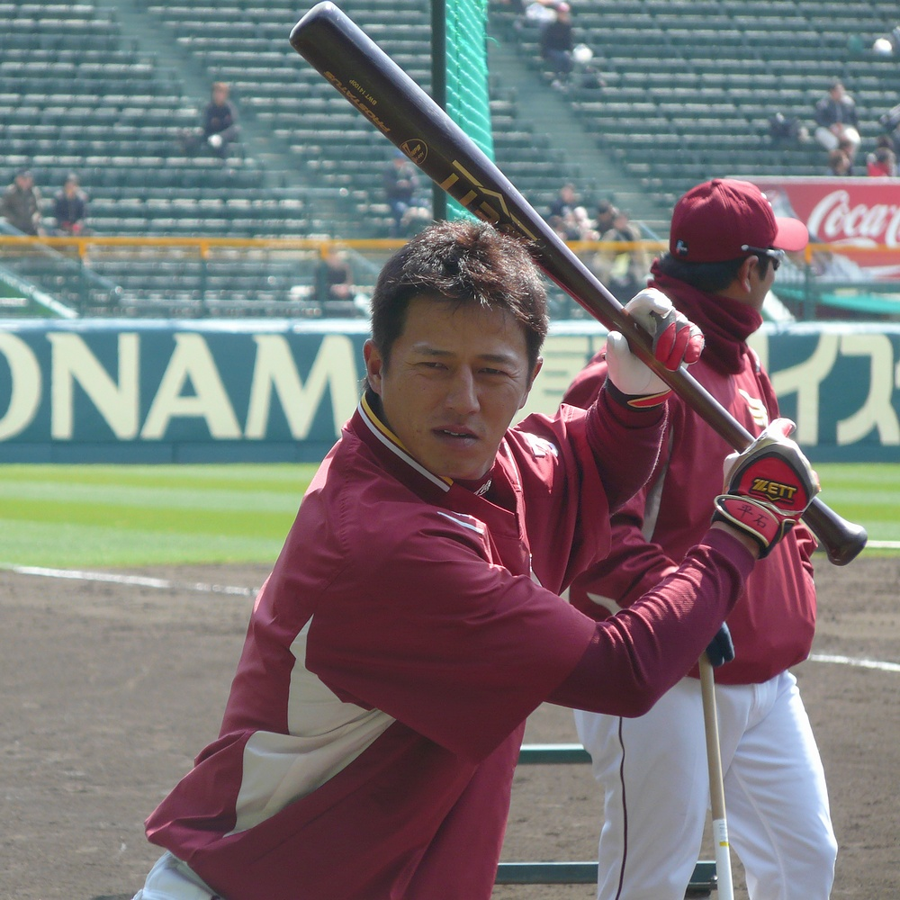 Yosuke Hiraishi, outfielder of the Tohoku Rakuten Golden Eagles, at Hanshin Koshien Stadium